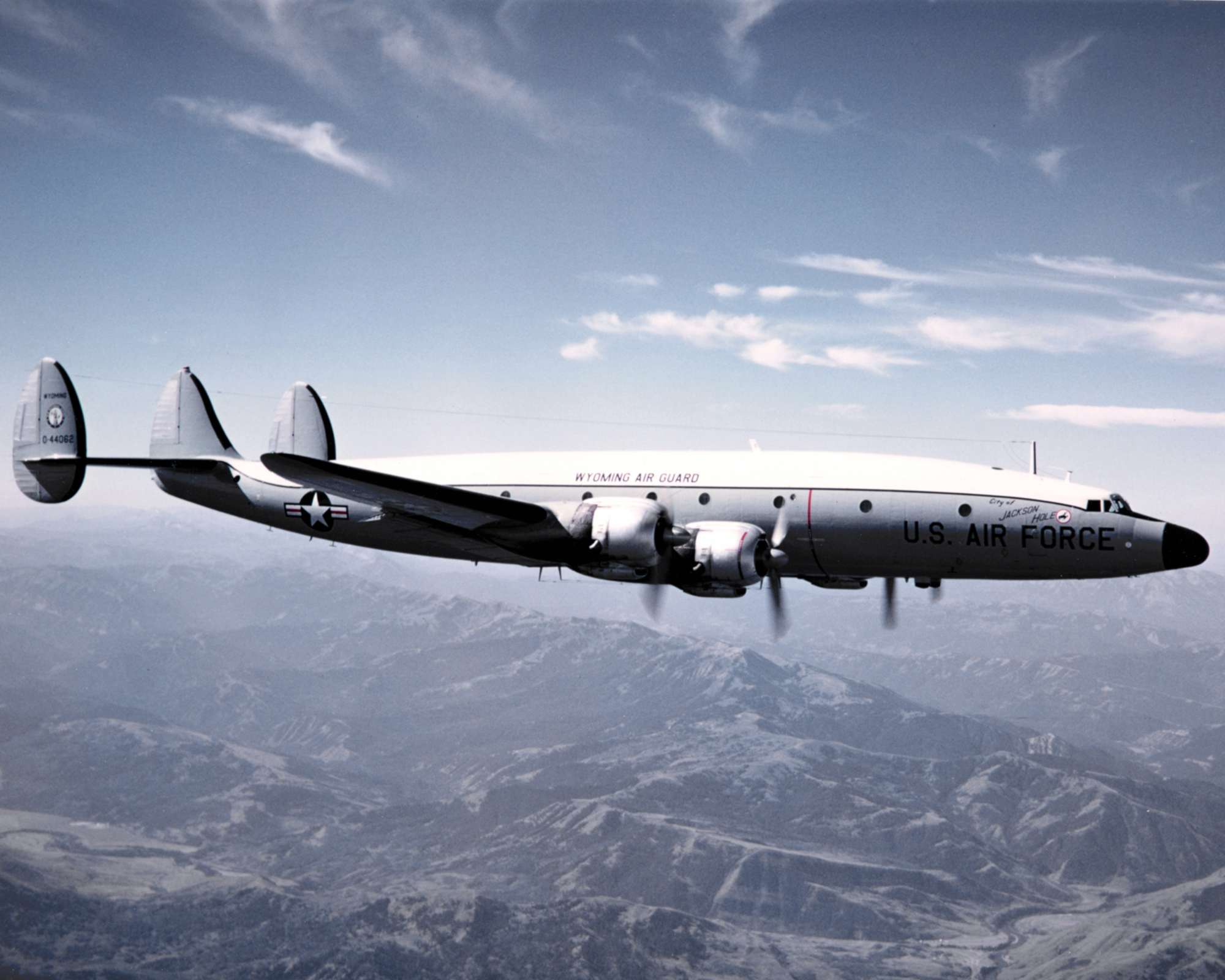 A U.S. Air Force Lockheed C-121G-LO Constellation (USAF s/n 54-4062, former U.S. Navy R7V-1 BuNo 131636), named "City of Jackson Hole", from the 187th Air Transport Squadron, 153rd Air Transport Group, Wyoming Air National Guard. The 187th AS flew the C-121 from 1963 to 1972. This aircraft was later flown with the civil registration N2114Z. It was then operated by Aerochago of Santo Domingo (N105CF). It is currently (2010) for sale in Switzerland.[1]